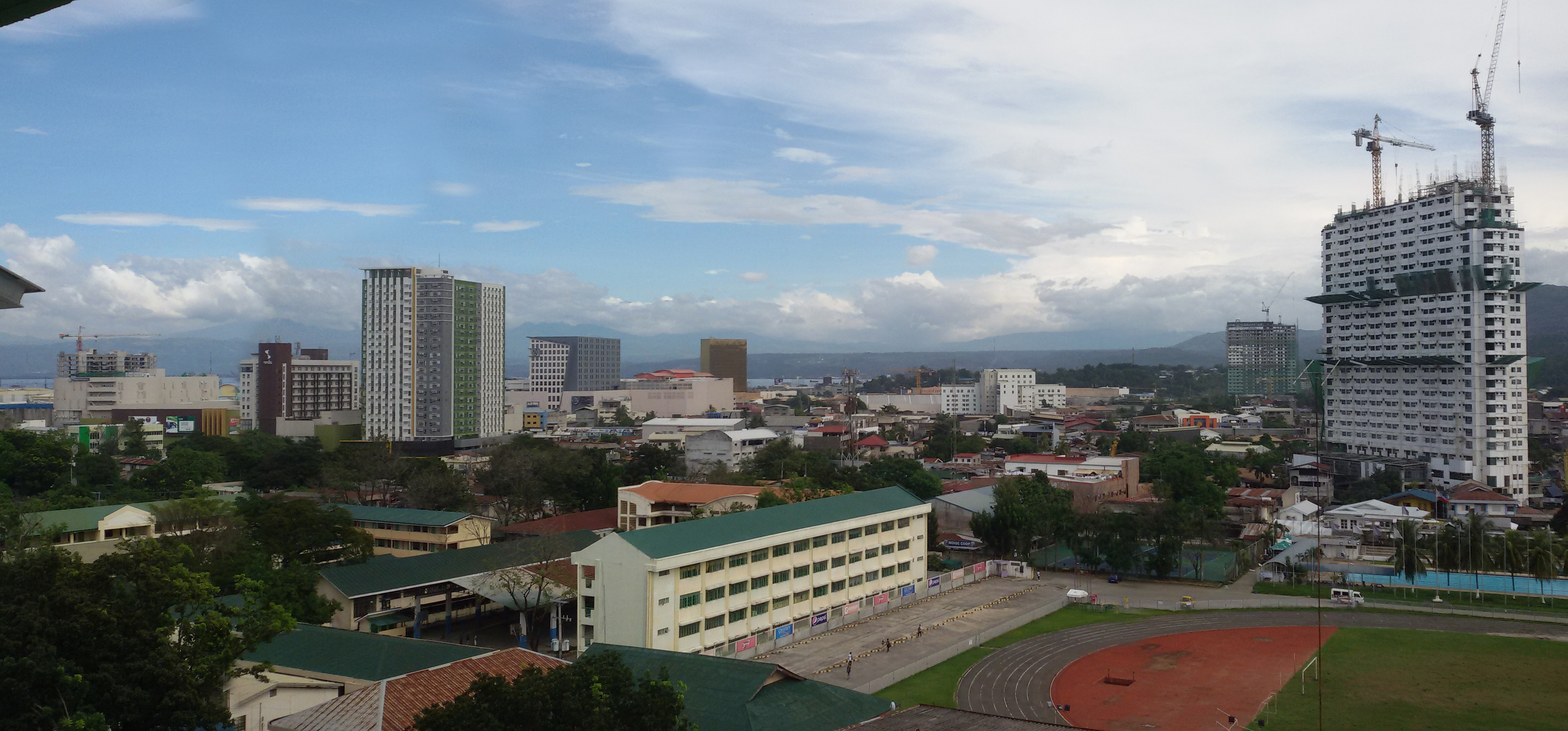 Cagayan de Oro Skyline taken from New Dawn Hotel Plus